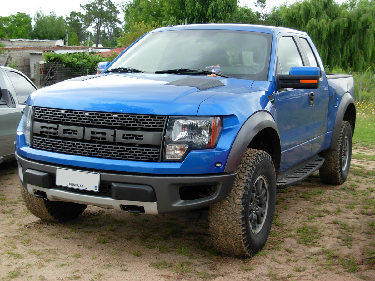 Front view of a Ford F-150 SVT Raptor, pictured in El Pinar, Uruguay.